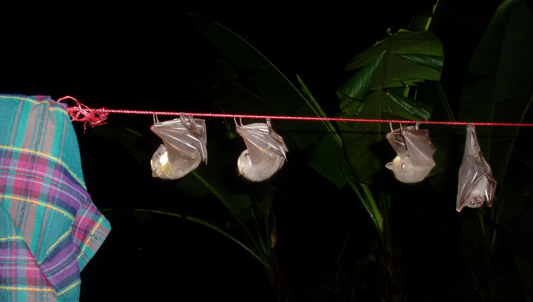 Cynopterus brachyotis hanging from clothesline